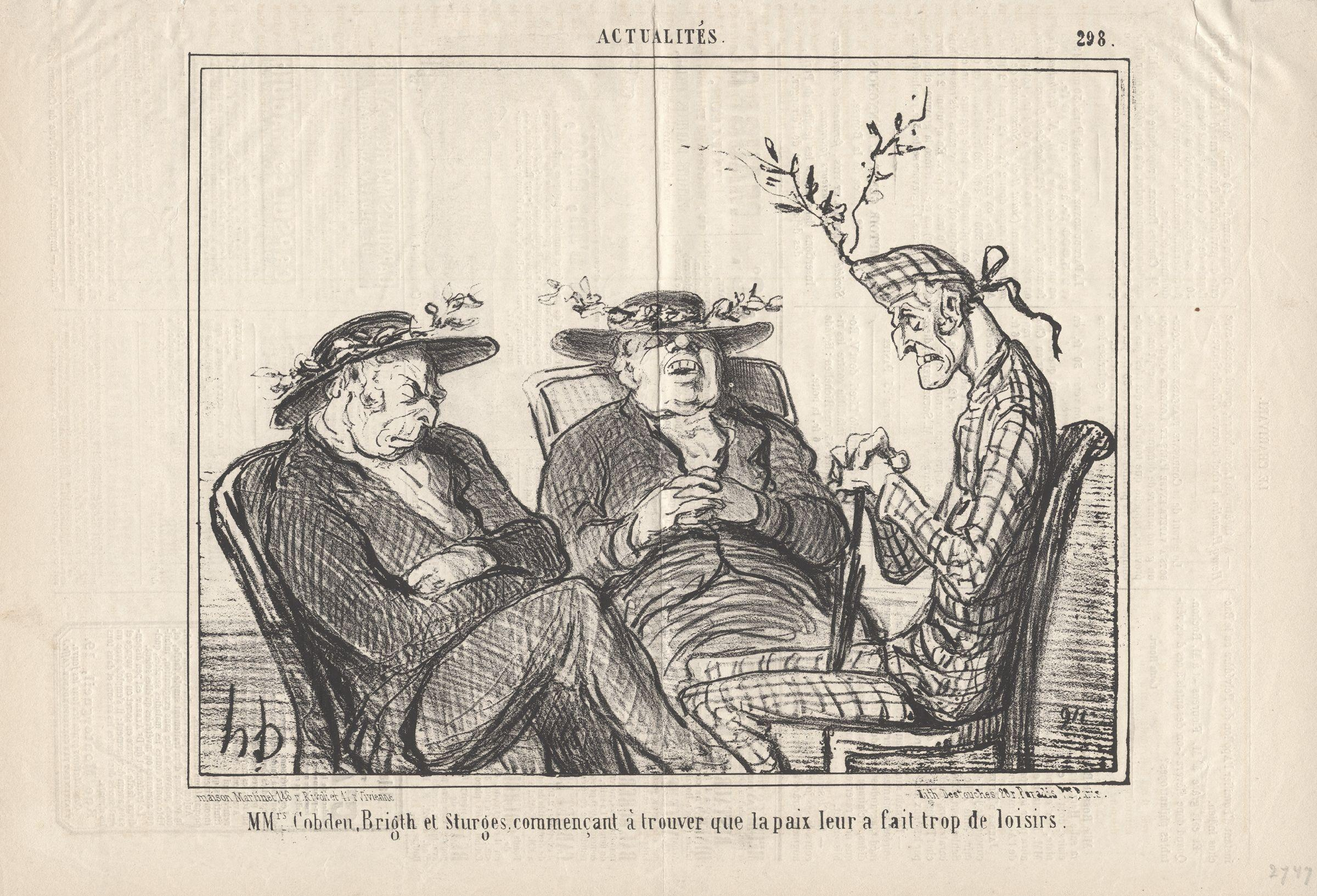 Joseph Sturge; John Bright; Richard Cobden, by Honoré Daumier (died 1879). Author: Honoré Daumier (1808-1879) Type of work: Lithograph. Published 18 April 1856 Paper size: 9 7/8 in. x 14 1/4 in. (250 mm x 362 mm) Purchased: 1978. Caption (in French): "et Sturges commençant à trouver que la paix leur a fait trop de loisirs". All images in this batch have been confirmed as author died before 1939 according to the official death date listed by the NPG.